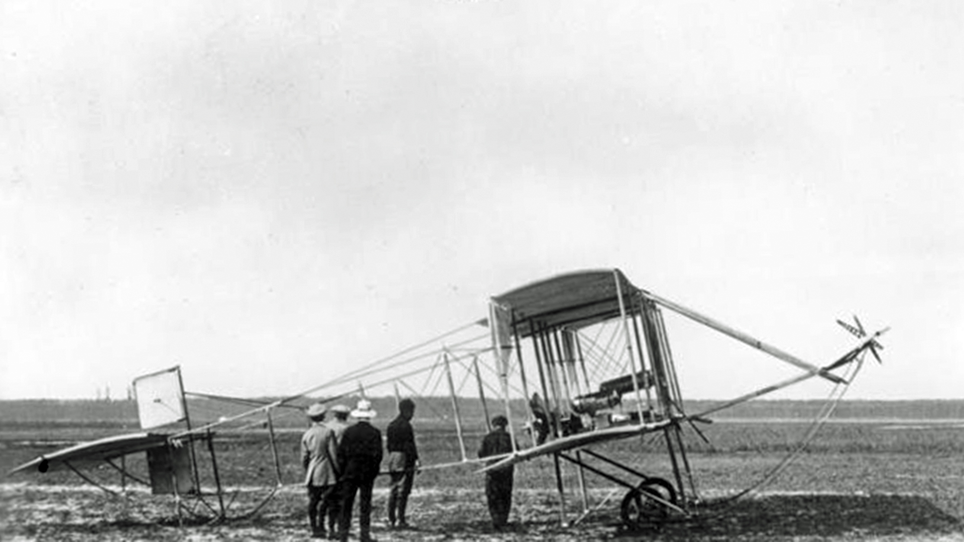 Image of the Johannisthal Air Field (Flugplatz Berlin-Johannisthal ) in 1910. Shown here on the ground is Amerigo with his Sommer 1910 biplane before the start.